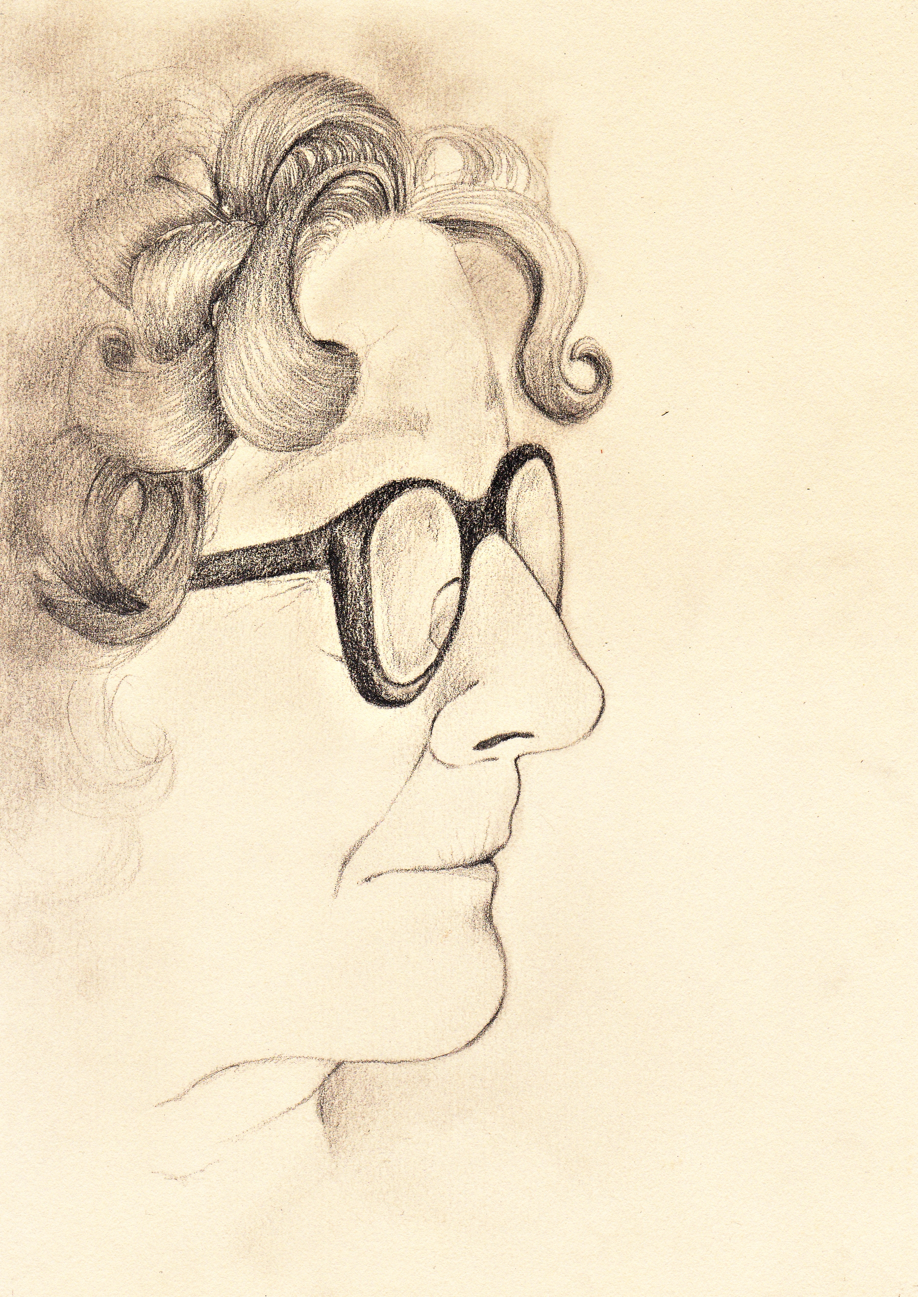 Portrait of Rosa Chacel (1898-1994), Spanish writer. Exile of Franco's dictatorship. Technique used in portrait: pencil on paper.